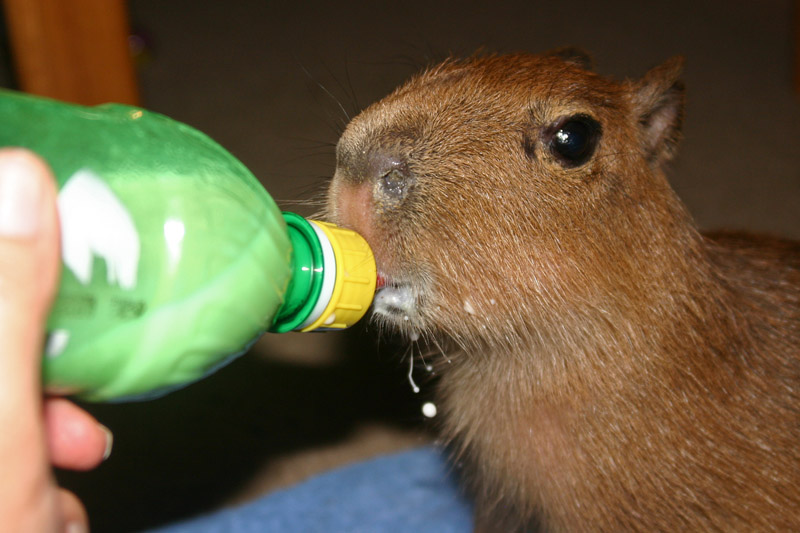 Caplin Rous, a six week old pet baby capybara, drinking from a bottle. The milk is goat replacement milk. Caplin Rous also ate grass, guinea pig food, corn on the cob and oats at this age. He weighed about 6.5 pounds.